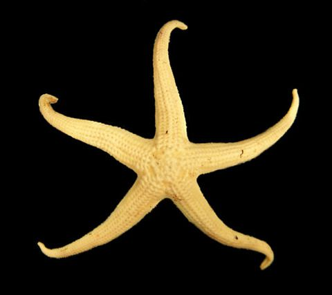 Neomorphaster forcipatus Verrill, 1894 - Preserved specimen Neomorphaster forcipatus (YPM IZ 028259). Digital Image: Yale Peabody Museum of Natural History; photo by Daniel J. Drew 2006 Location Country or area United States of America Decimal latitude 39.88333 Decimal longitude -67.43333 Geodetic datum WGS84 Georeference protocol unspecified Georeference remarks ex Argus Georeference sources unspecified Higher geography North America; Atlantic Ocean; USA; Bear Seamount Locality Bottom depth: 1195-1402 m Municipality Bear Seamount Water body Atlantic Ocean